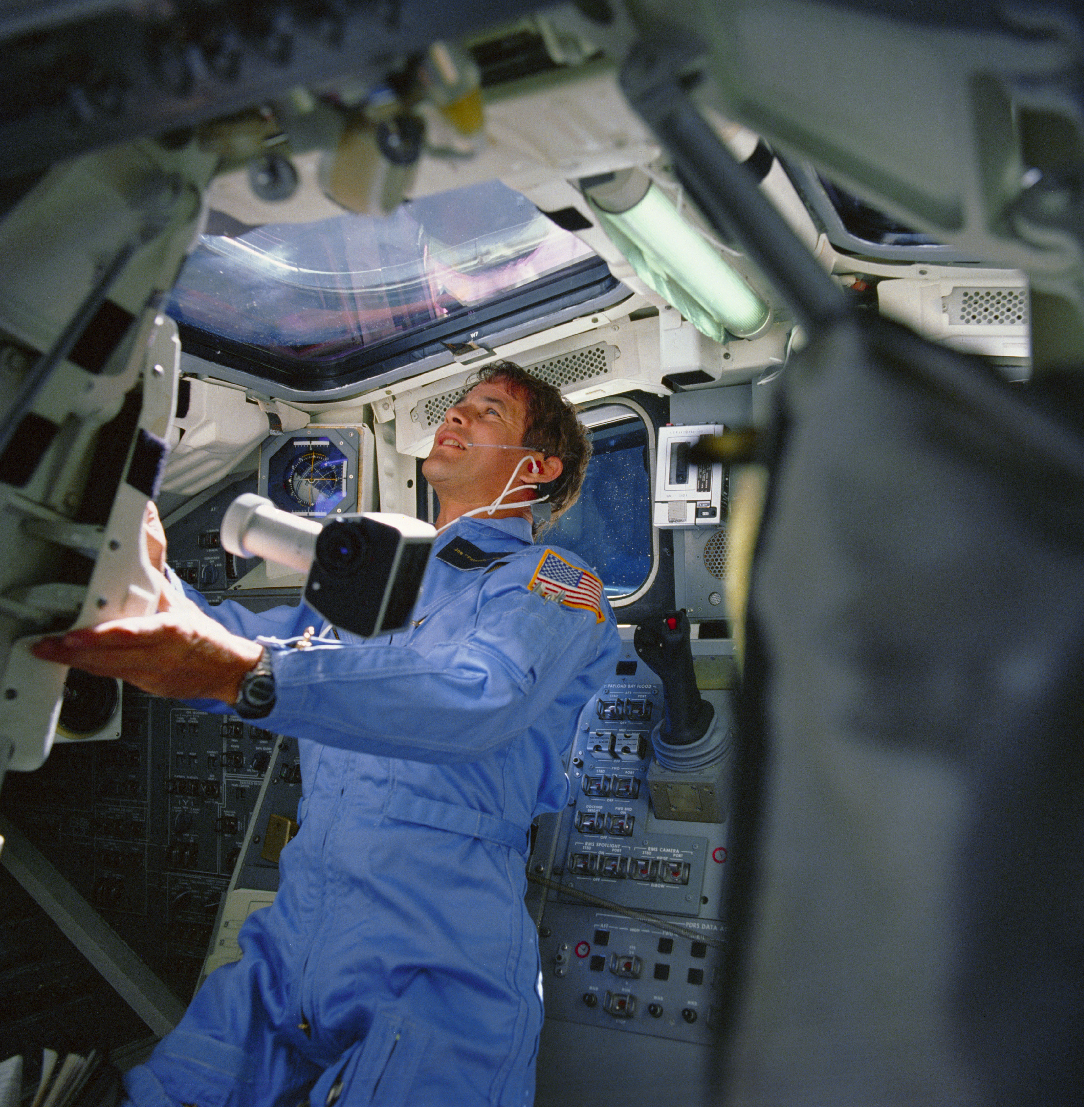 Astronaut Joseph P. Allen IV, STS-5 mission specialist, lets a spot-meter float freely for a moment during a period devoted to out-the-window photographs of Earth from orbiting space shuttle Columbia. Dr. Allen is on the flight deck of the reusable space vehicle and positioned behind the pilot's station. Also onboard for NASA's first operational Space Transportation System (STS) flight are astronauts Vance D. Brand, commander; Robert F. Overmyer, pilot; and William B. Lenoir, mission specialist.